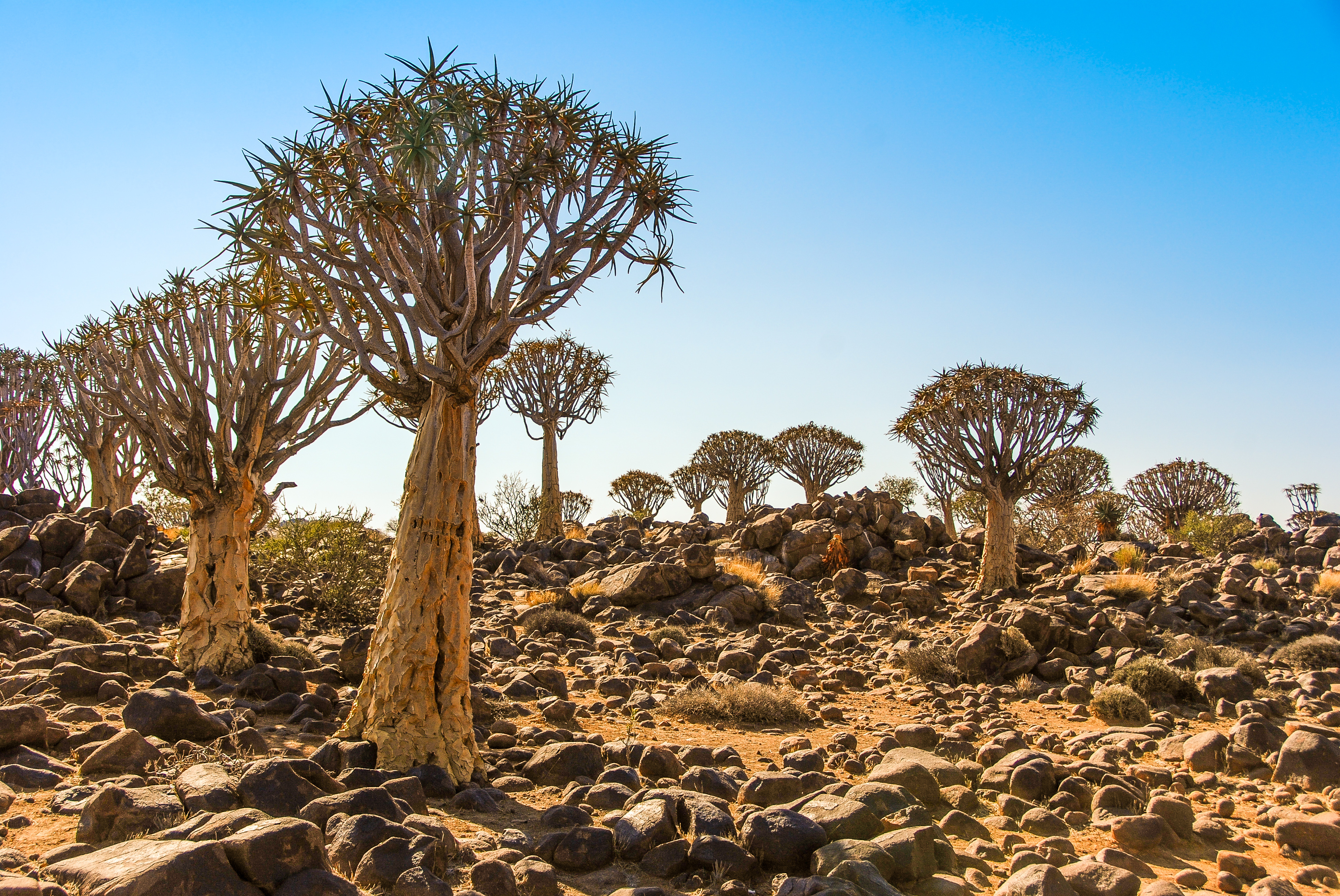 Quiver Tree Forest (Aloe Aloidendron dichotoma) or kokerboom or Köcherbaumwald near Keetmanshoop in Namibia, Africa